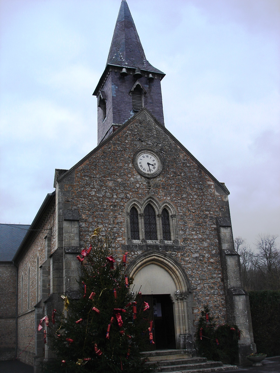 Saint Martin church of Vouzy (19th century), Marne , France